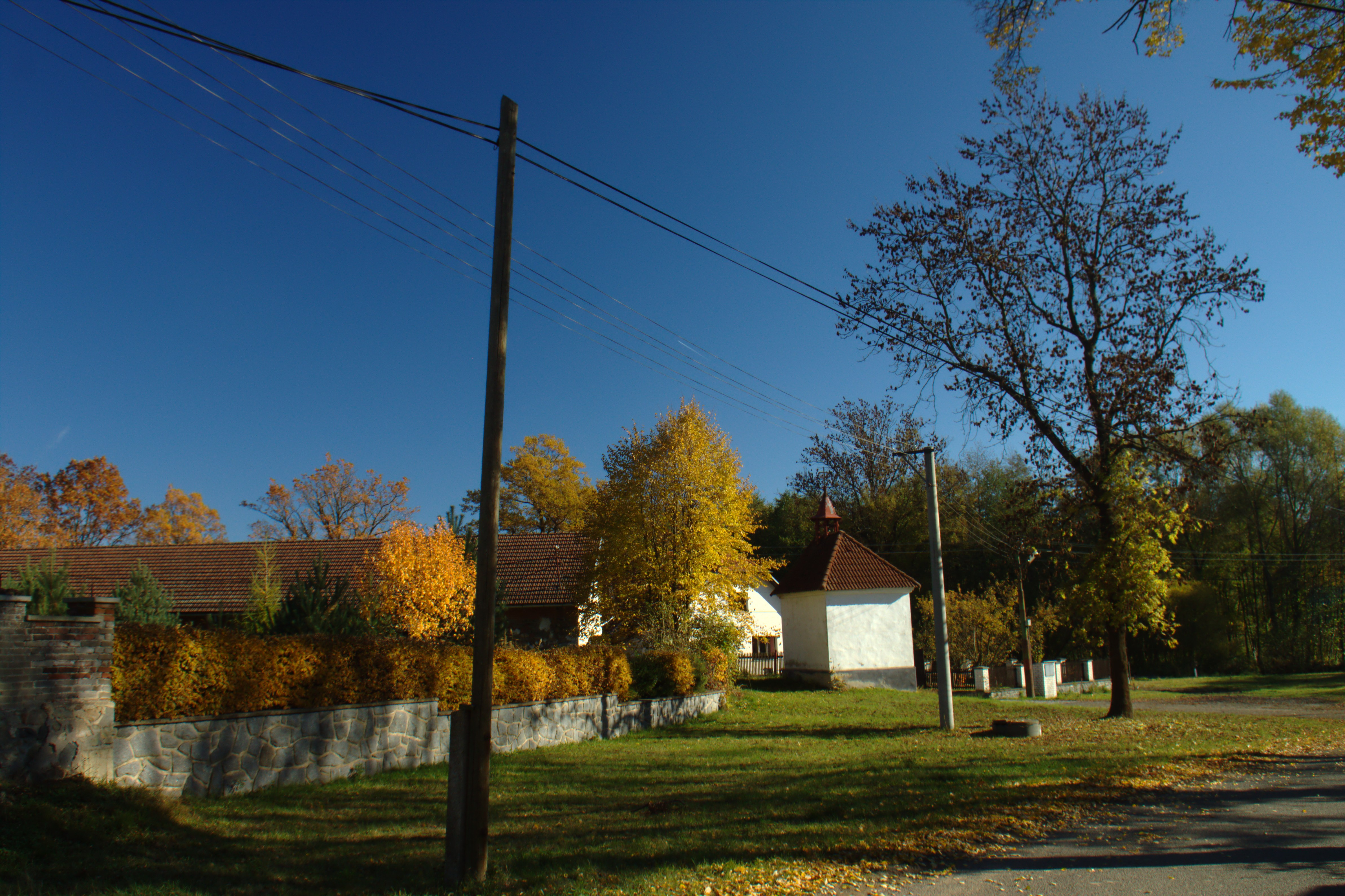 Trees on a common in the village of Těchařovice, Central Bohemian Region, CZ